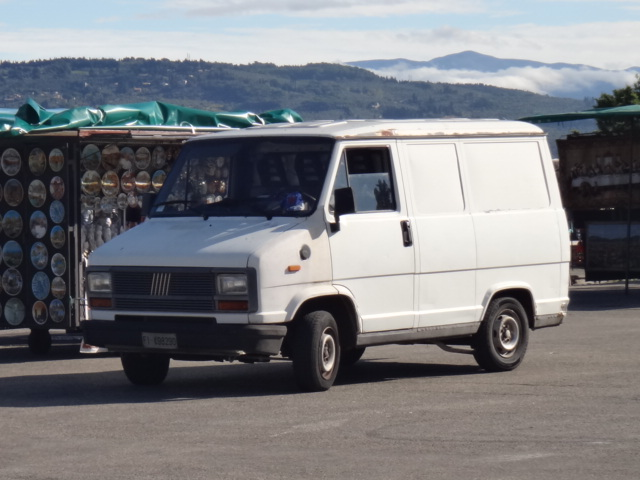 This was the only SWB model I saw!